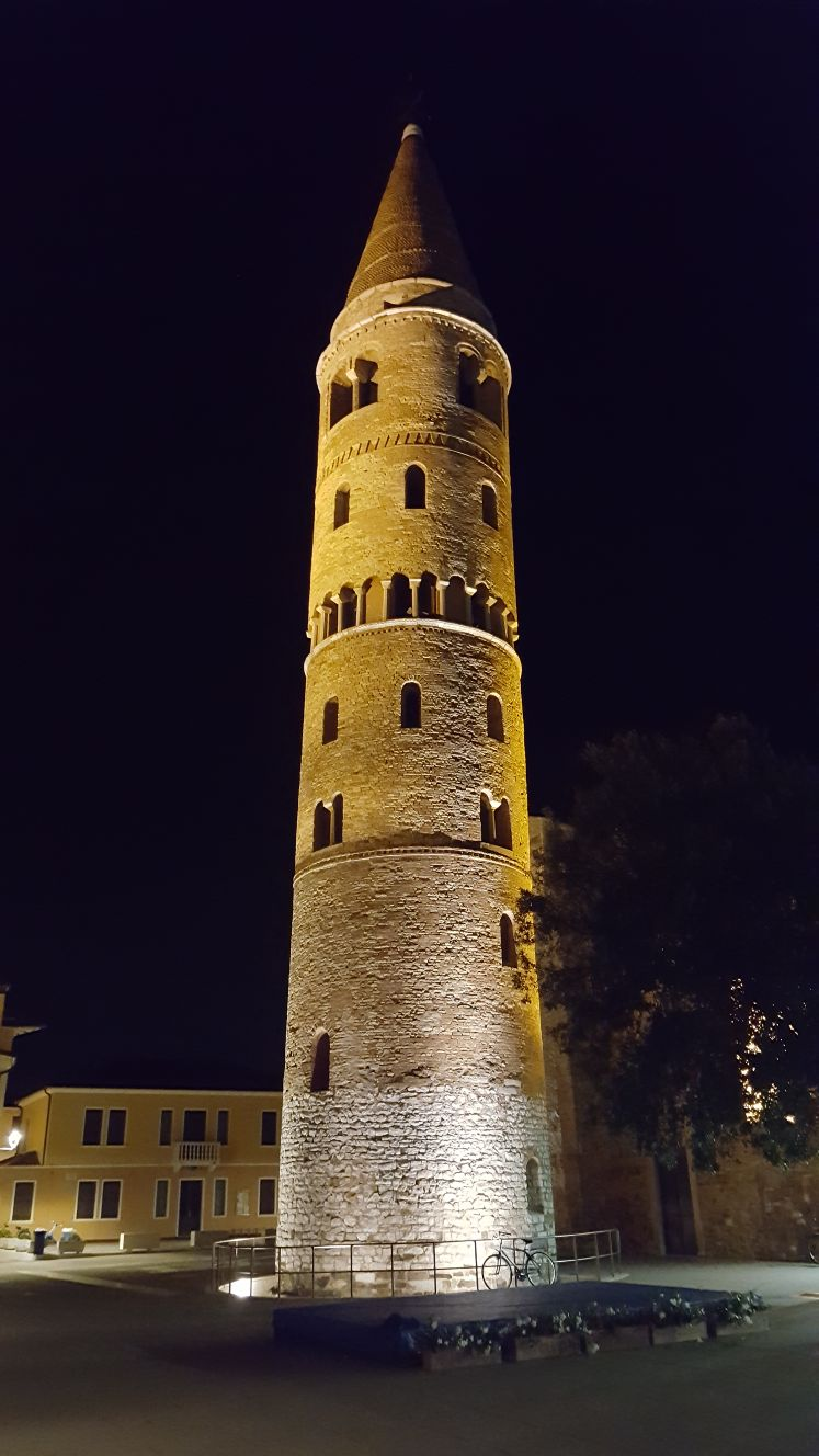 Caorle bell tower by night